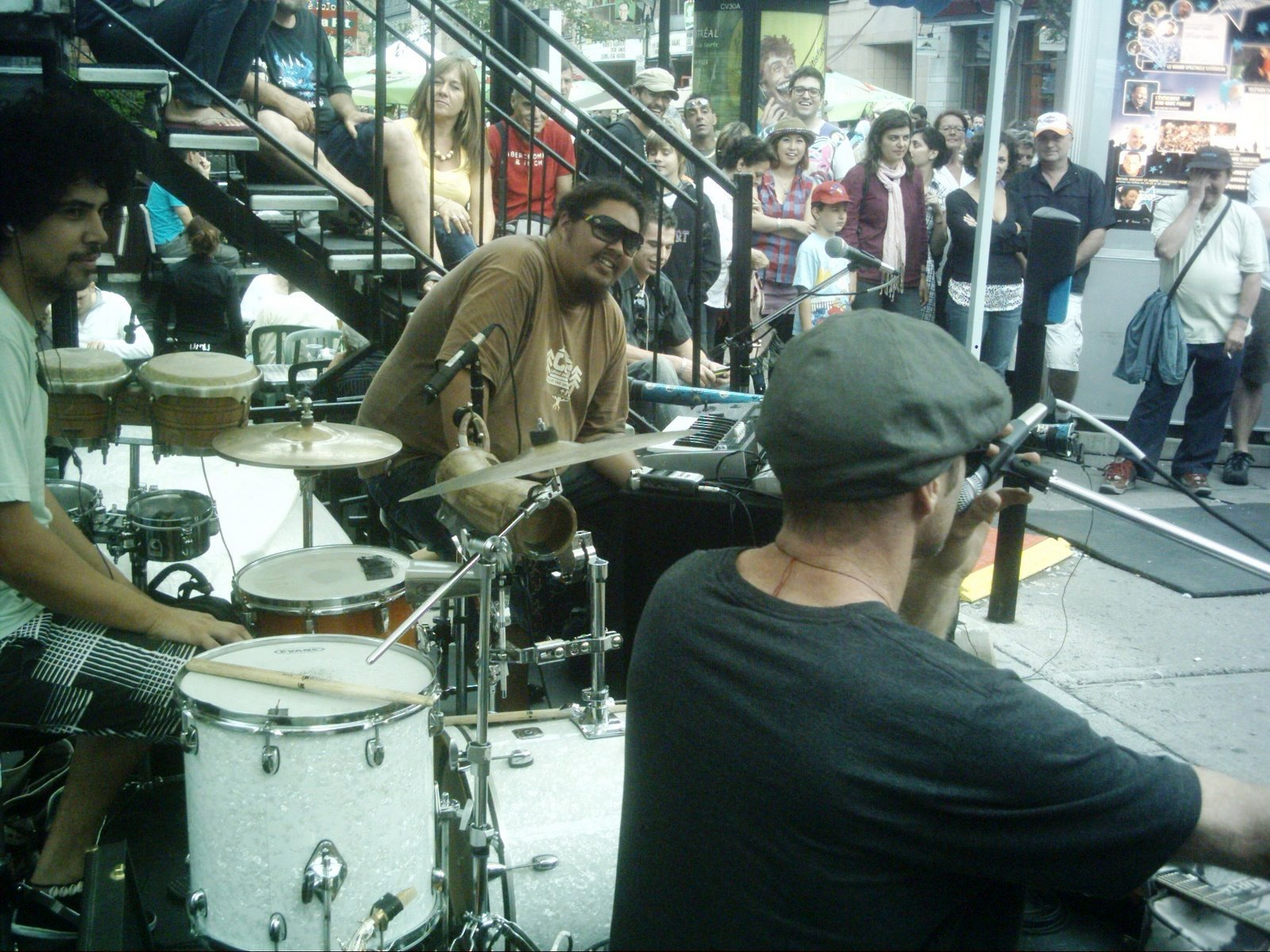 Oka, musicians, on St. Denis street, Montreal, during Just For Laugh Festival